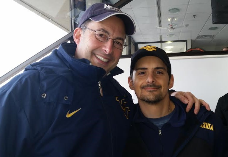 Tony Caridi interviewed country music star Brad Paisley on the West Virginia vs. TCU broadcast on November 1, 2014, in Morgantown, WV.